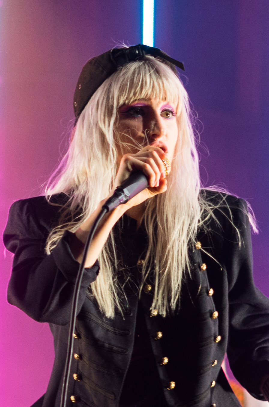 Paramore live concert at Royal Albert Hall, London, UK.